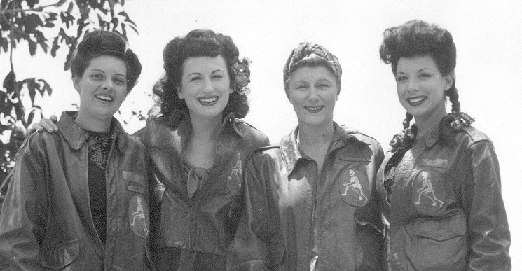 Black and white photo taken by World War II veteran Jack Heyn, which is a photograph of singer Helen McClure, violinist Shirley Cornell, actress Judith Anderson, and accordionist Anne Triola at Hollandia, Dutch New Guinea.